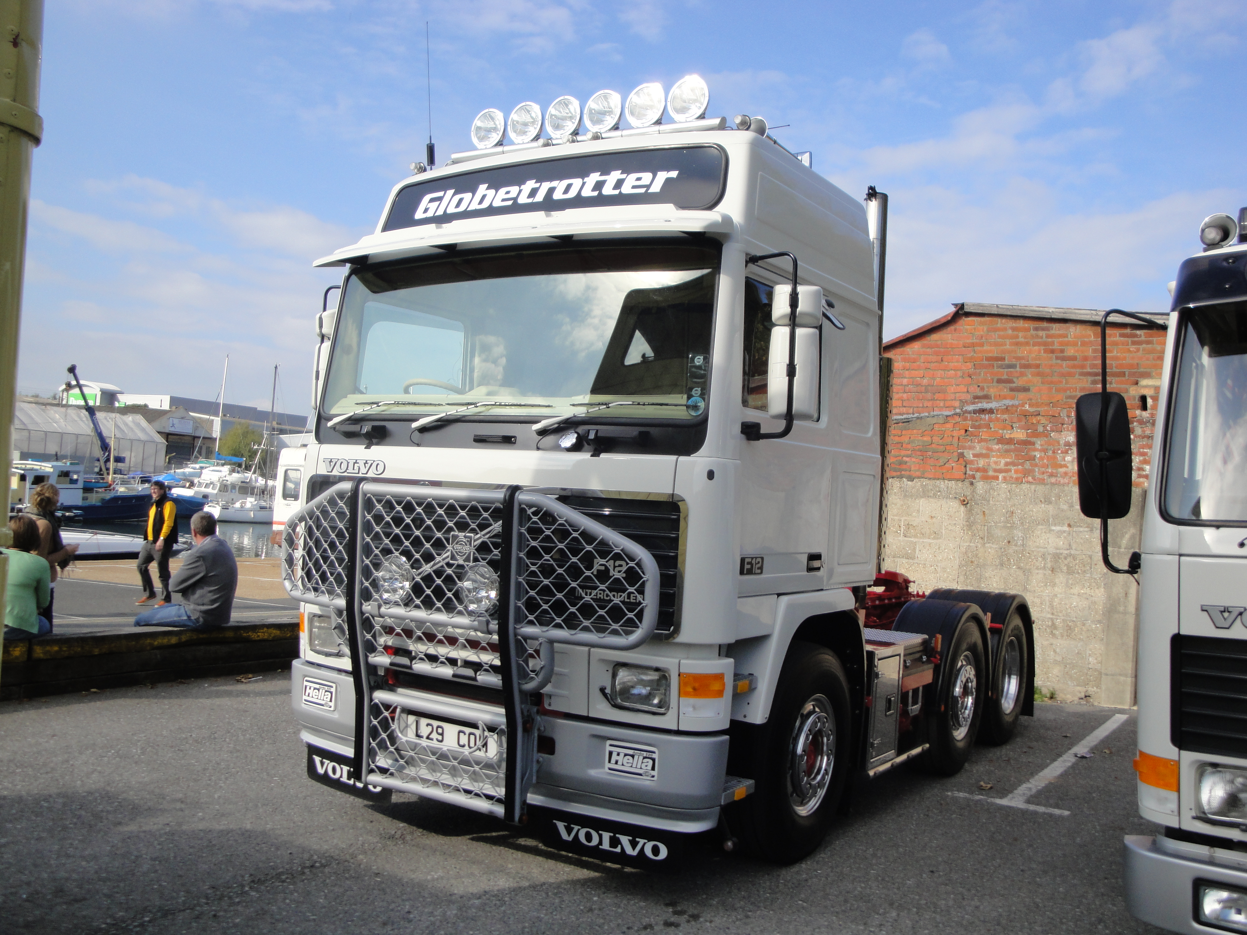 A Volvo F12 Globetrotter (L29 COM), in Newport Quay, Newport, Isle of Wight for the Isle of Wight Bus Museum's October 2011 running day.